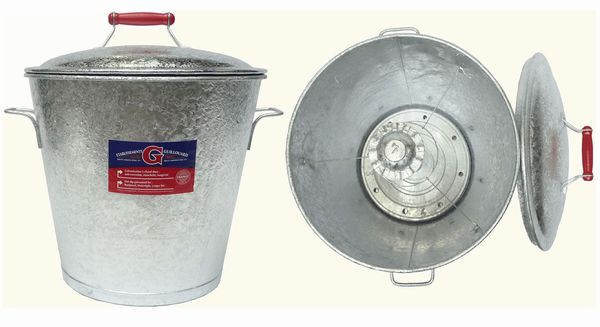 Hot dip galvanized coppers